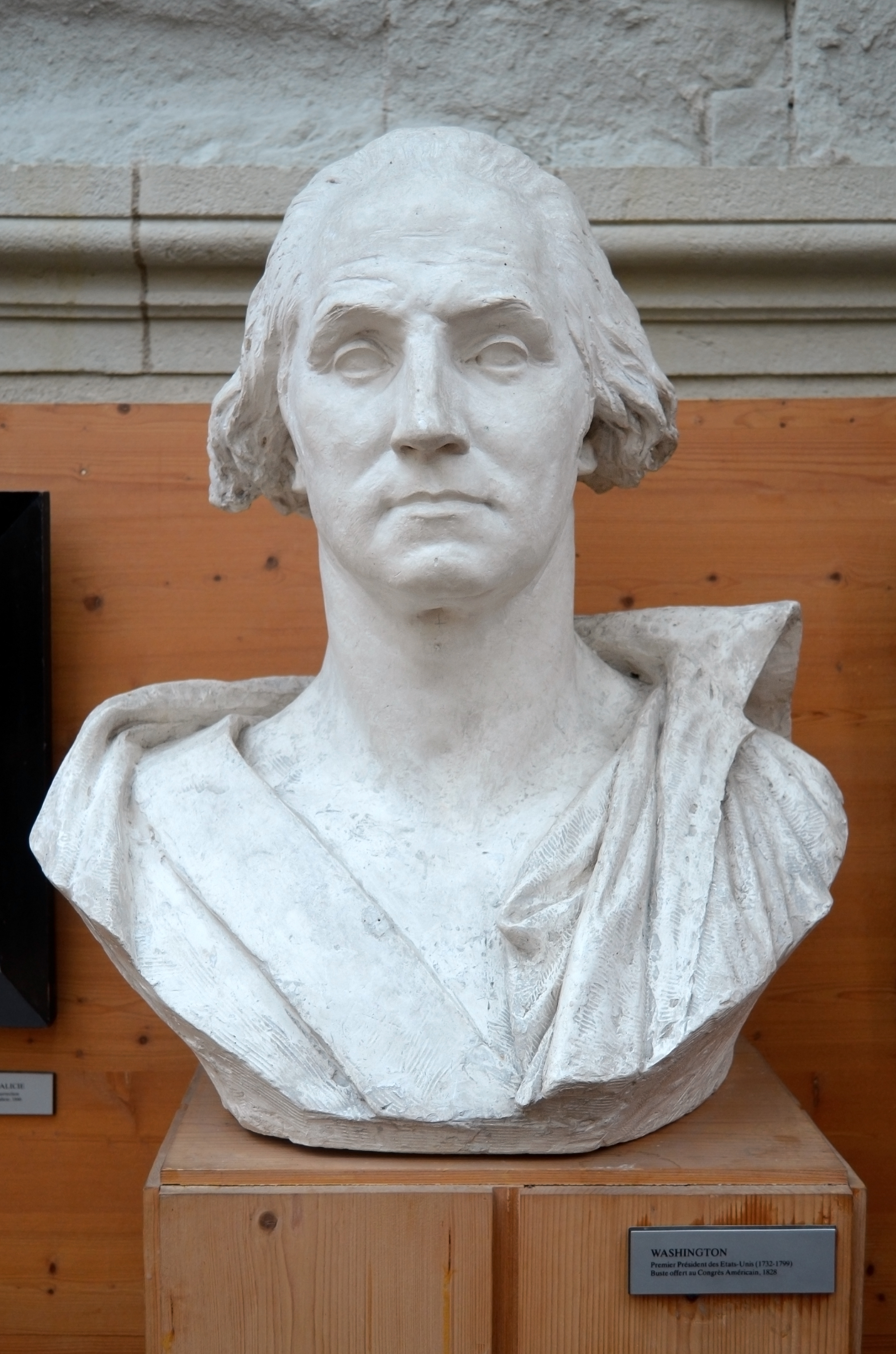 Bust of George Washington by french sculptor David d'Angers (1828). Exhibited in David d'Angers gallery, Angers, France